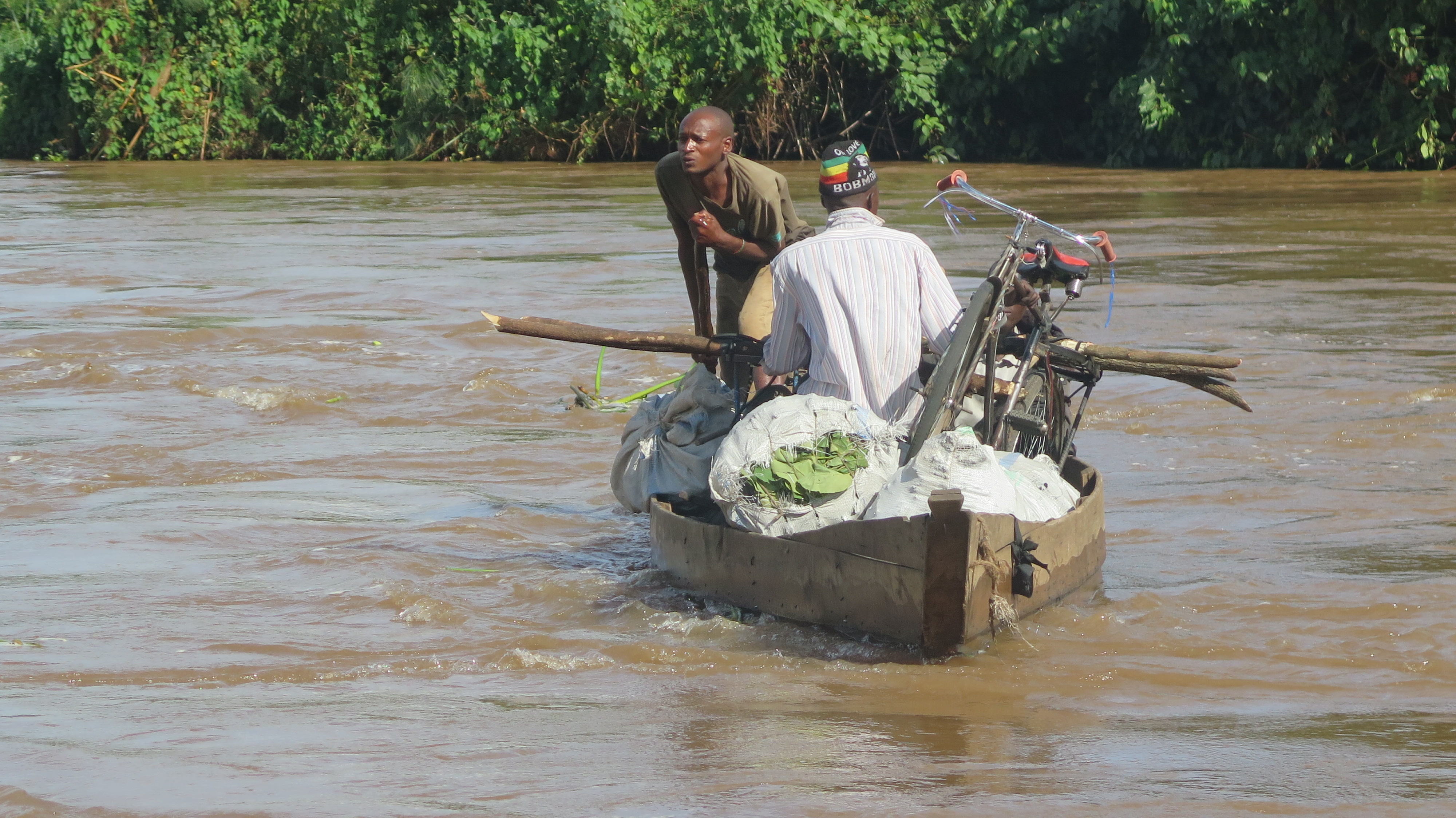 Small traders transport charcoal on a rickety boat across River Kagera in Kajaho, Isingiro District on the Uganda-Tanzania border. The traders were ferrying the charcoal from Tanzania into Uganda and crossed using an ungazetted entry point. River Kagera is shared by the two countries; it also acts as the borderline that separates Uganda and Tanzania. Photo taken during a tour of the cross point. This is an image of "African people at work" from Uganda